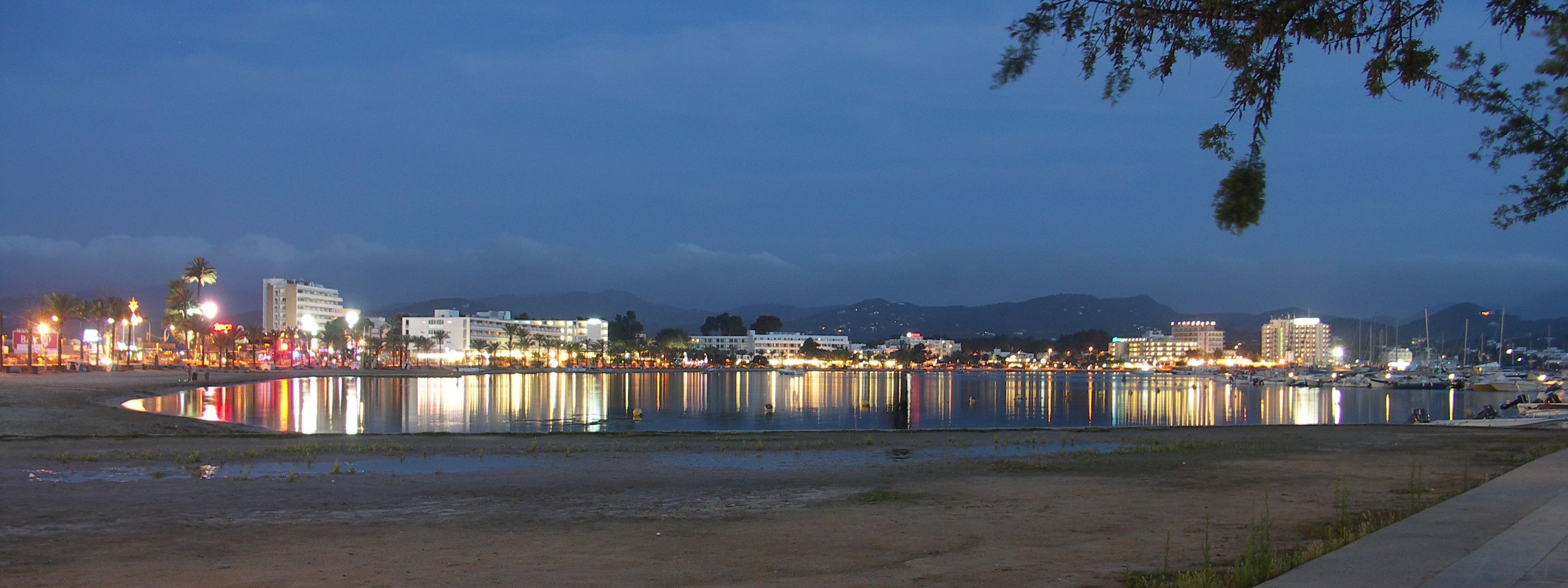 Sant Antoni de Portmany Bay on Ibiza, the harbour on the right side, taken from the Aviguada del Doctor Fleming heading southwest